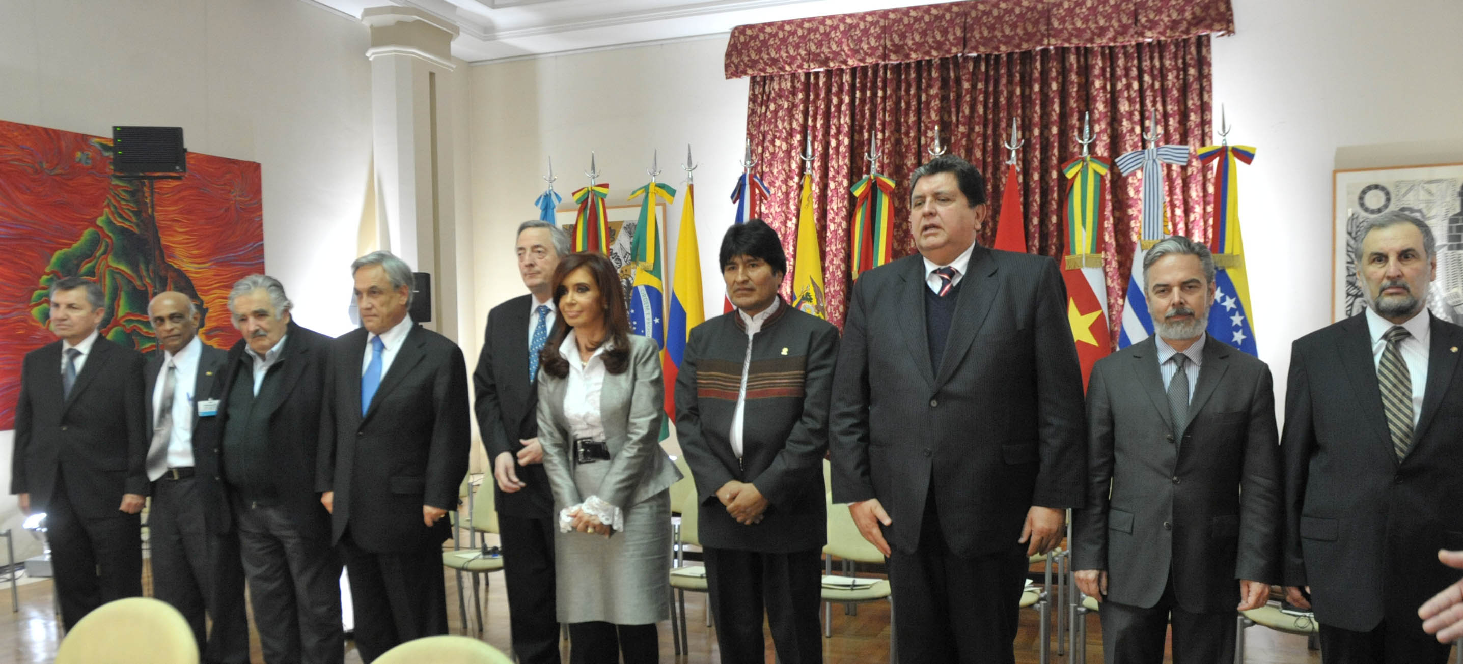 Presidents of UNASUR during emergency summit at Buenos Aires Argentina due Ecuador's Crisis